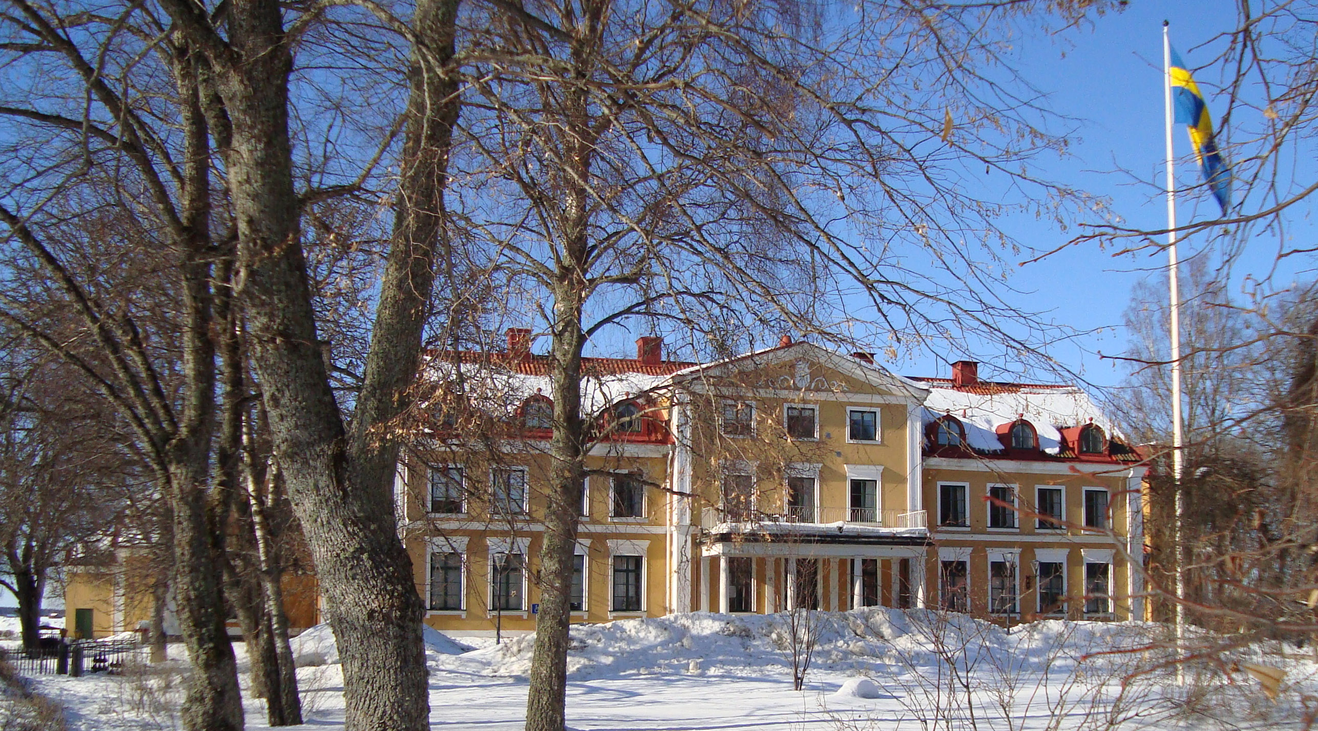 Tärna folkhögskola (folk high school), Sala Municipality, Sweden